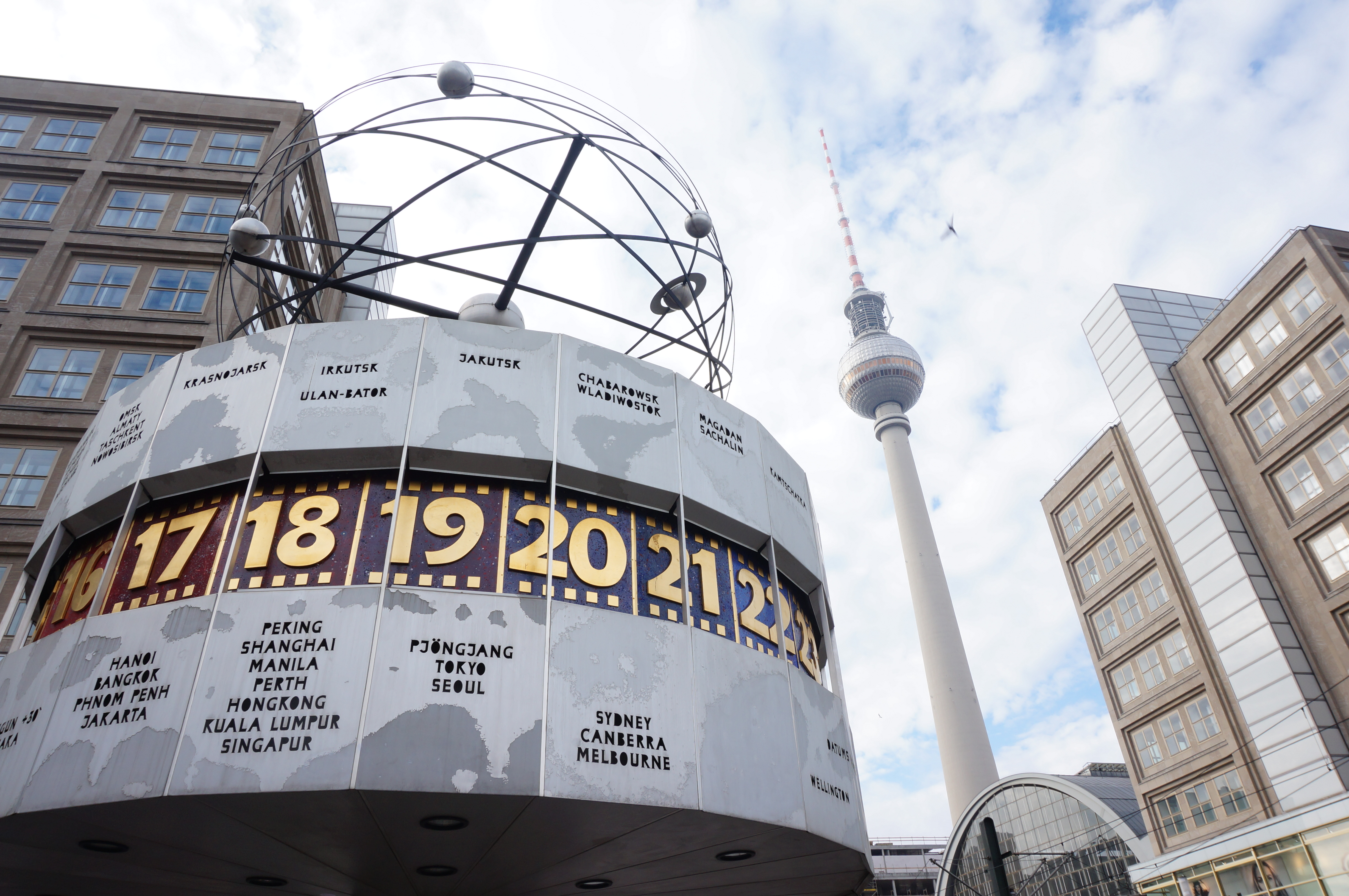 Alexander Platz